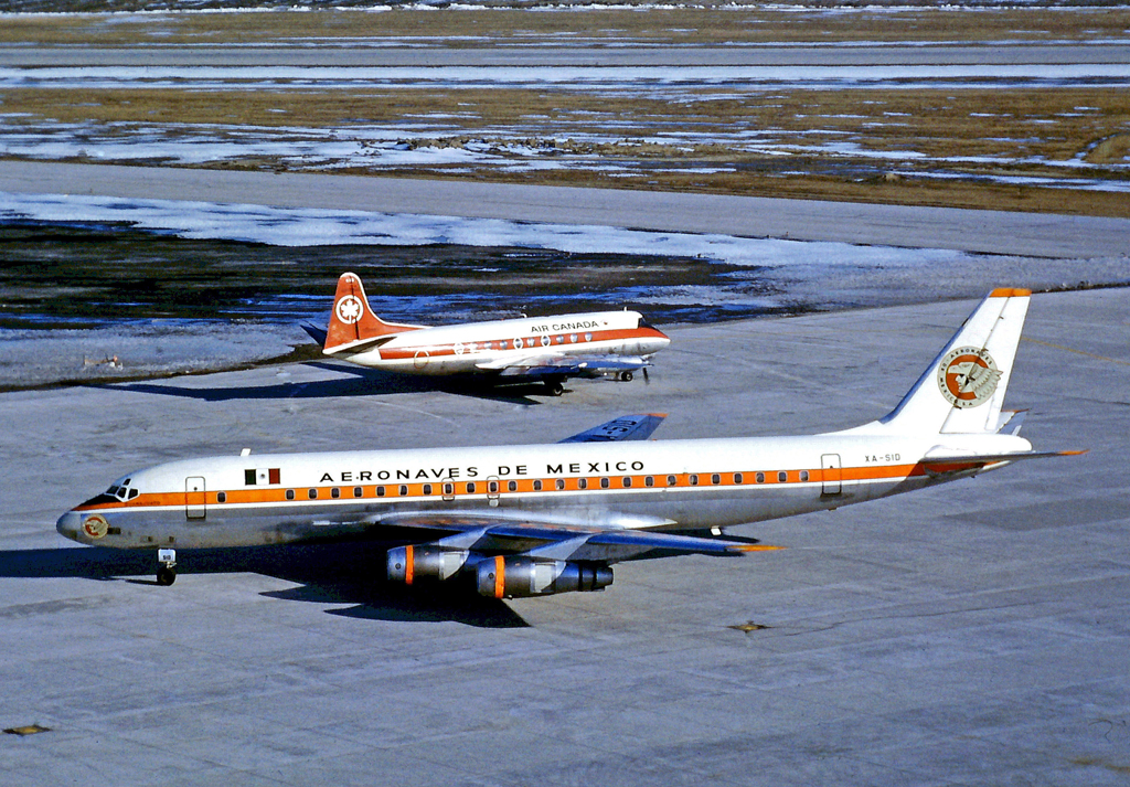 Douglas DC-8-51 XA-SID of Aeronaves de Mexico at Toronto Malton Airport in 1971